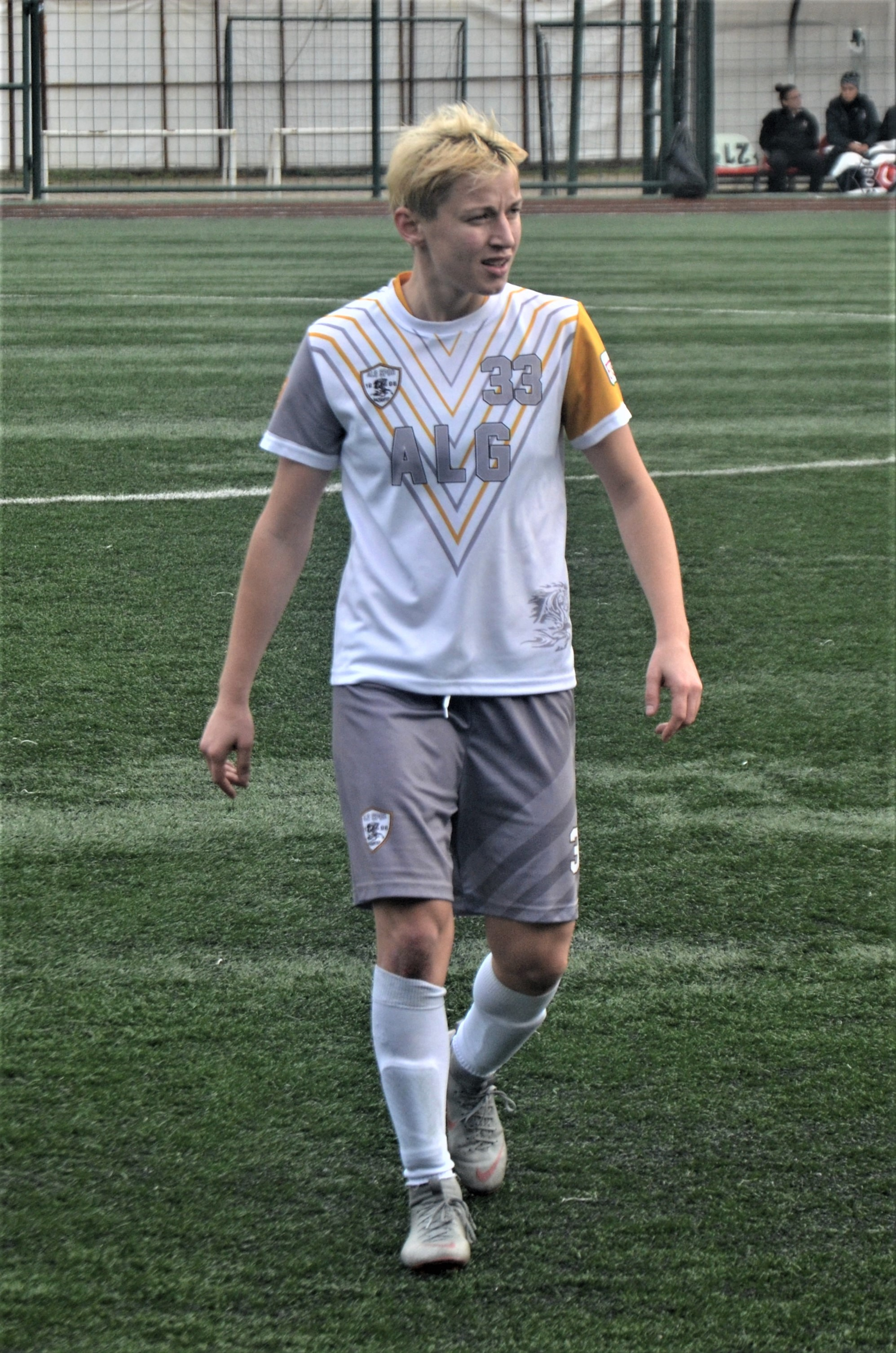 Natia Pantsulaia of ALG Spor in the 2018-19 Turkish Women's First League.